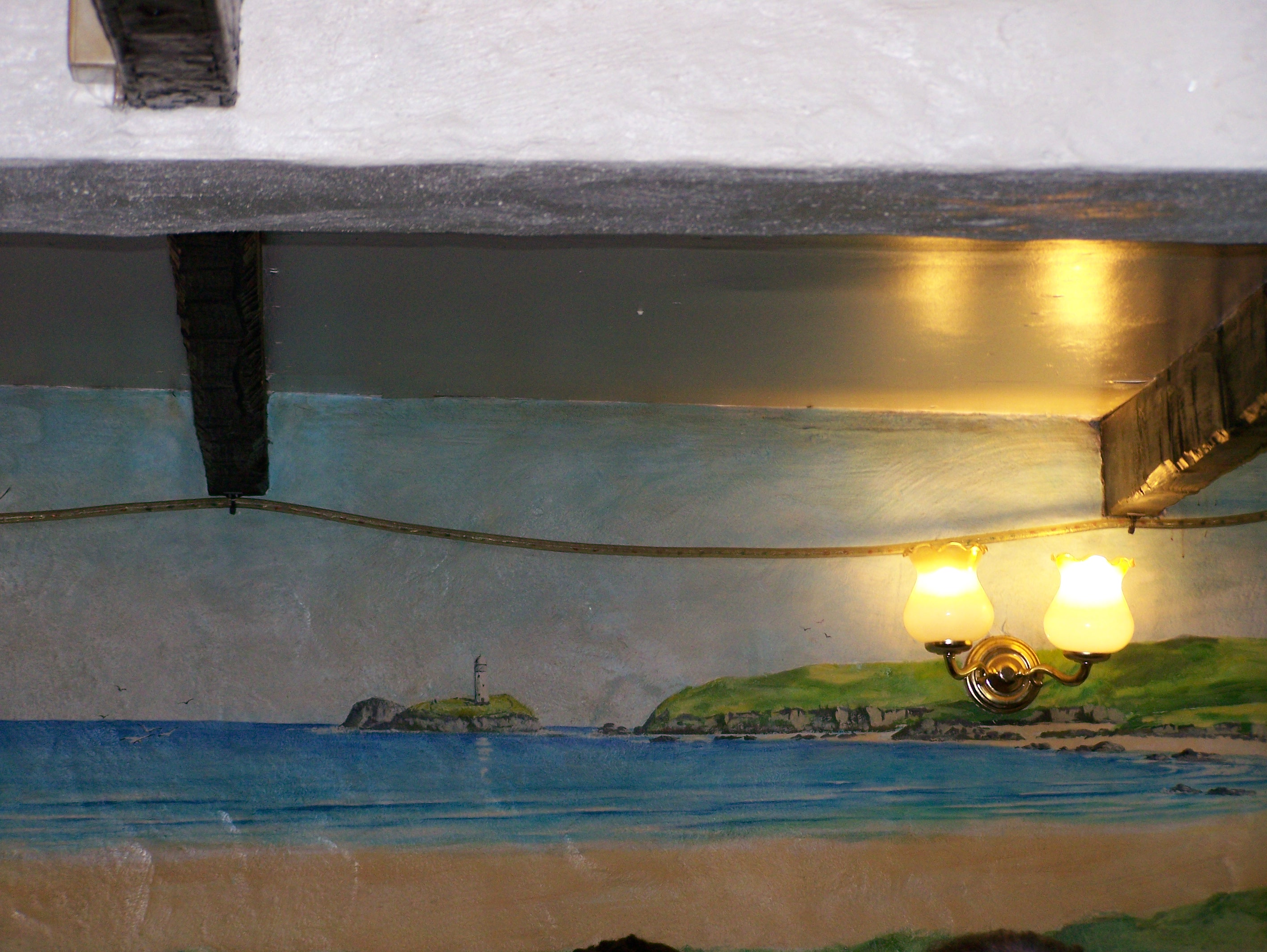 Picture of the landscape painted directly onto the wall at the Bucket of Blood pub, Cornwall.